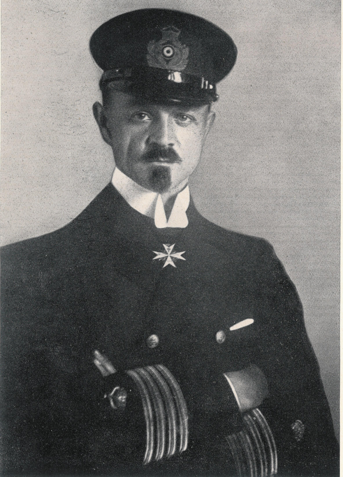 Peter Strasser, German airship commander in World War I.